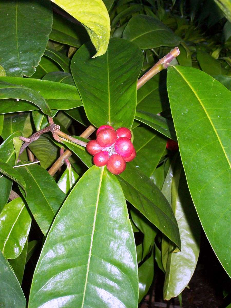 Phaleria octandra at the Royal Botanic Gardens, Sydney